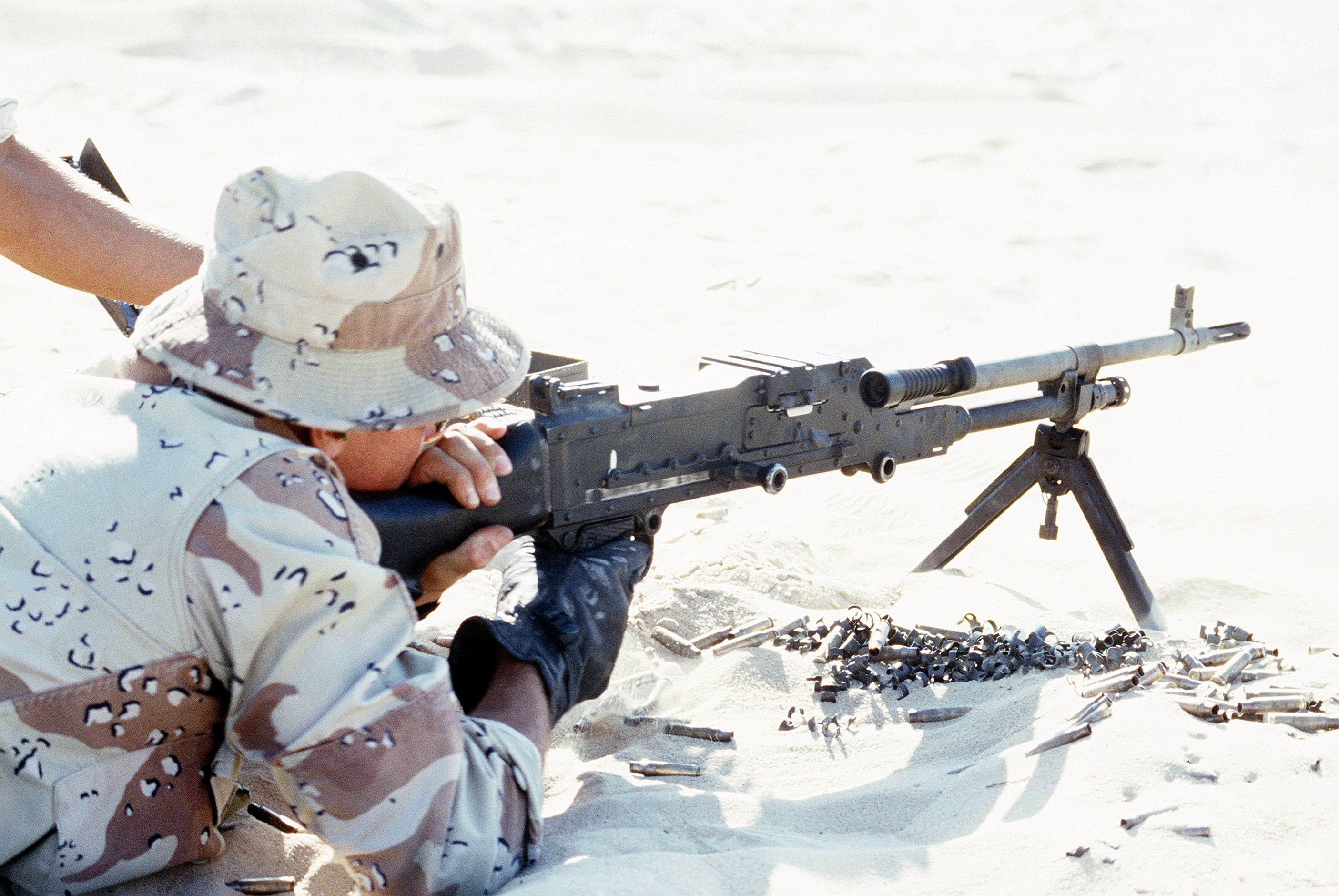 A Marine from 7th Platoon, 1st Force Reconnaissance Company, fires a British L7A2 general purpose machine gun during weapons training with British soldiers of the Queen's Dragoon Guards at Abu Hydra Range during Operation Desert Shield.